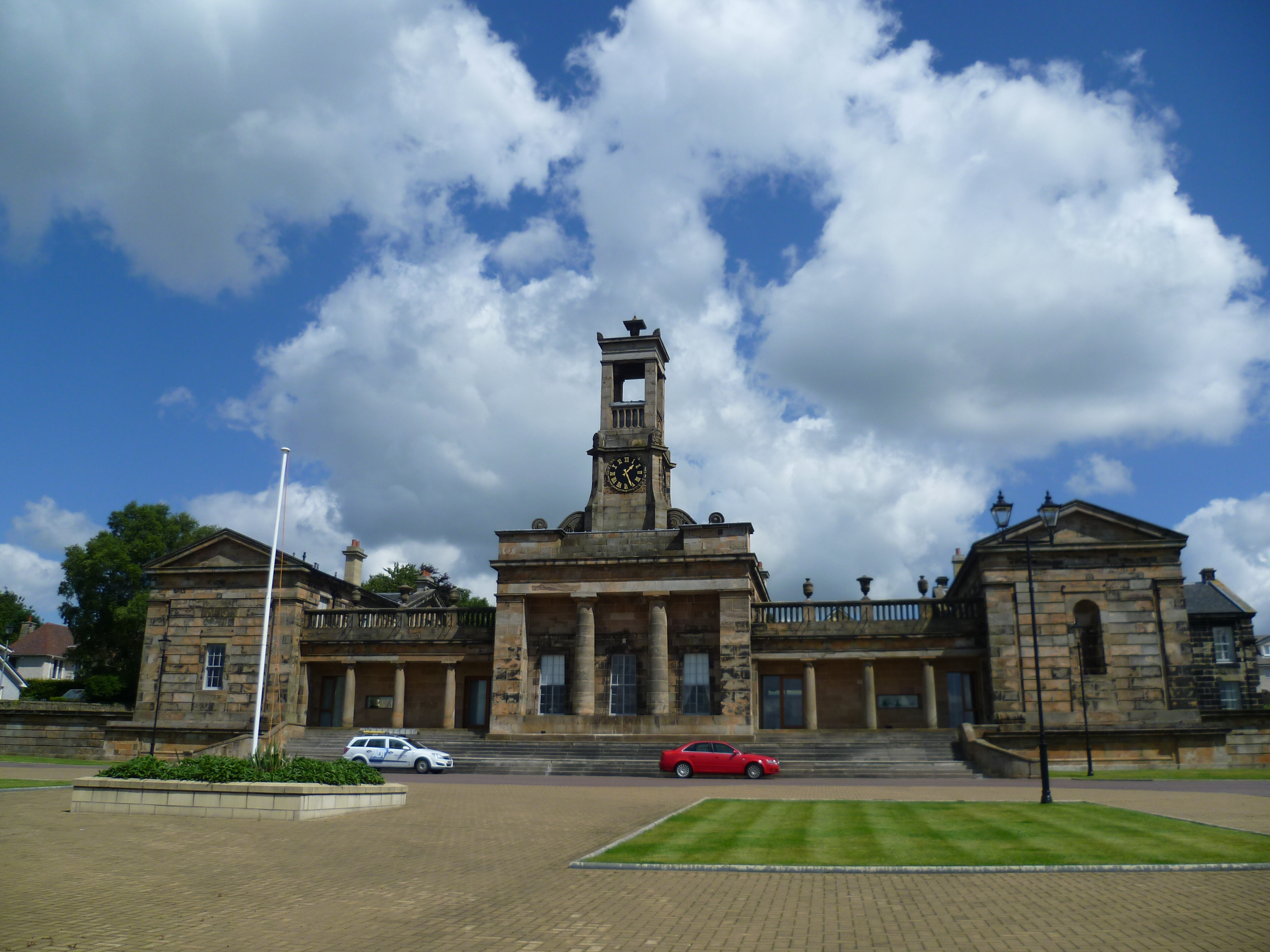 Bathgate Academy, built in 1831, has been converted into private apartments. Its most famous alumnus is Sir James Young Simpson who discovered the anaesthetic properties of chloroform in 1847.